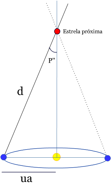 Stellar parallax motion. Author: Sebastião Rocha A. Neto.